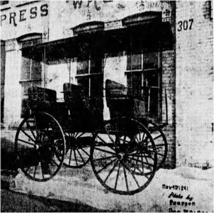 First electric horseless carriage made by William Morrison in 1888